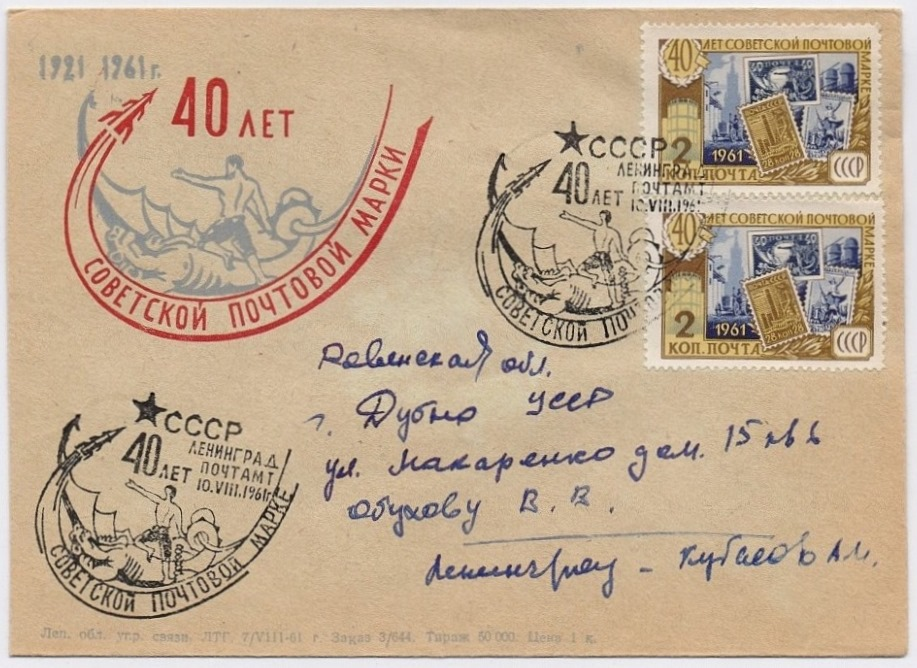 USSR 1961-08-10 cover sent from Leningrad, franked twice with 40th anniversary of Soviet stamps issue, 2kop. Catalogue: Mi.2517, Sc. 2516